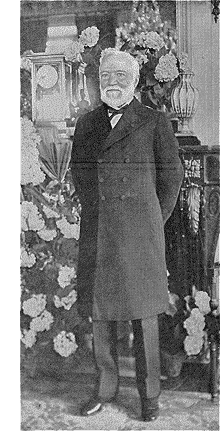 Andrew Carnegie